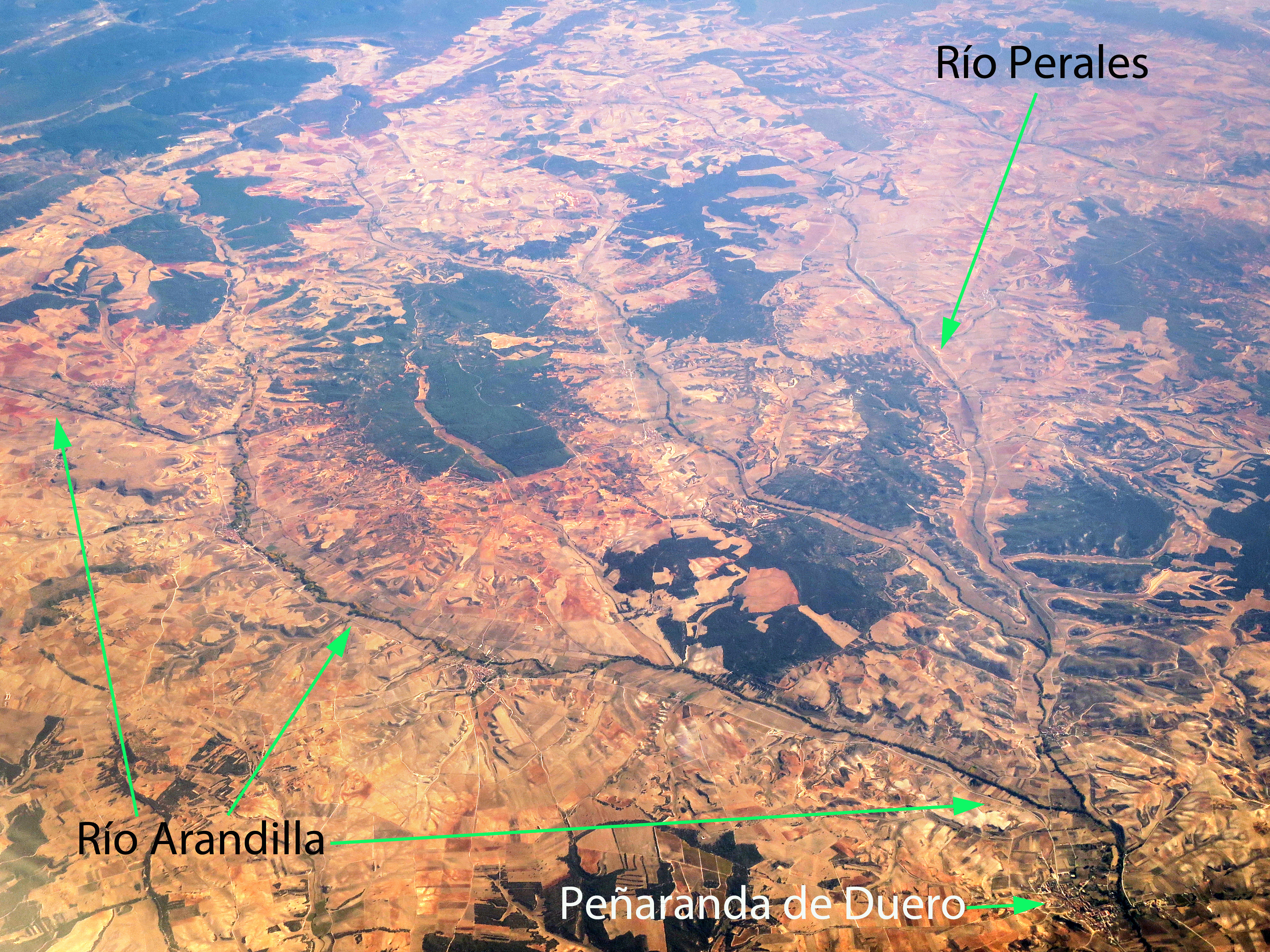 An aerial view of part of the province of Burgos in Spain. It includes the towns of Arandilla and Peñaranda de Duero, and also the confluence of the rivers Arandilla and Perales.